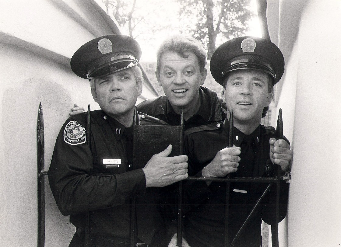 L–R: G.W. Bailey, David Graf, Lance Kinsey (Police Academy series).